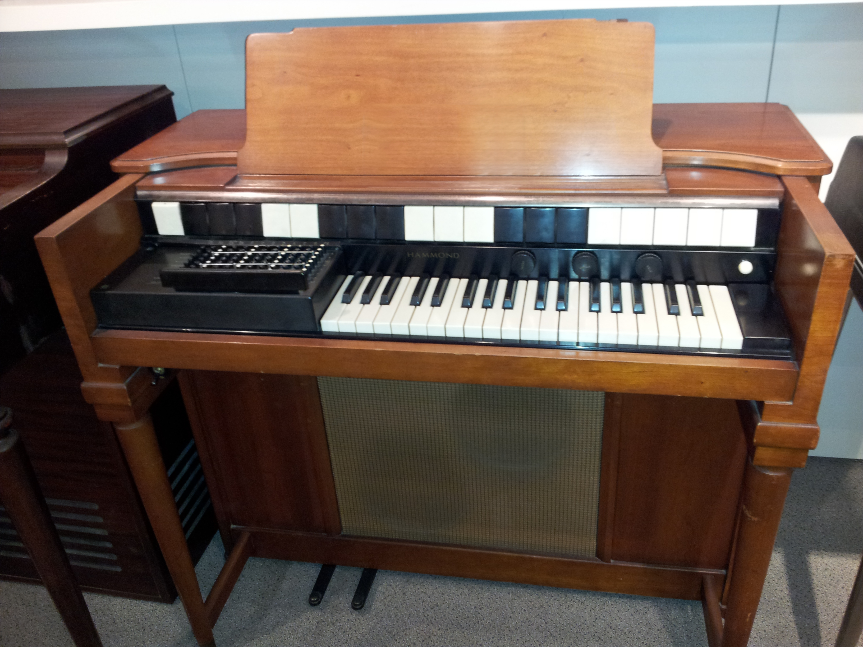 Hammond S-6 Chord Organ, Museum of Making Music